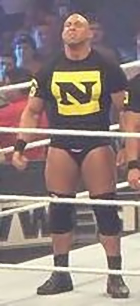 Ryan Reeves (Skip Sheffield) at SummerSlam 2010